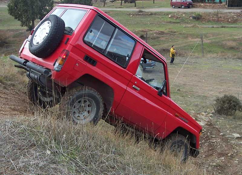 Toyota Land Cruiser, 1985 model. Image taken at a trial circuit in Spain. Image by Quique251.